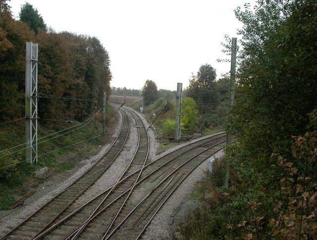 Town of Lowton, railway junction To the left, the line to Manchester; to the right, to Liverpool.